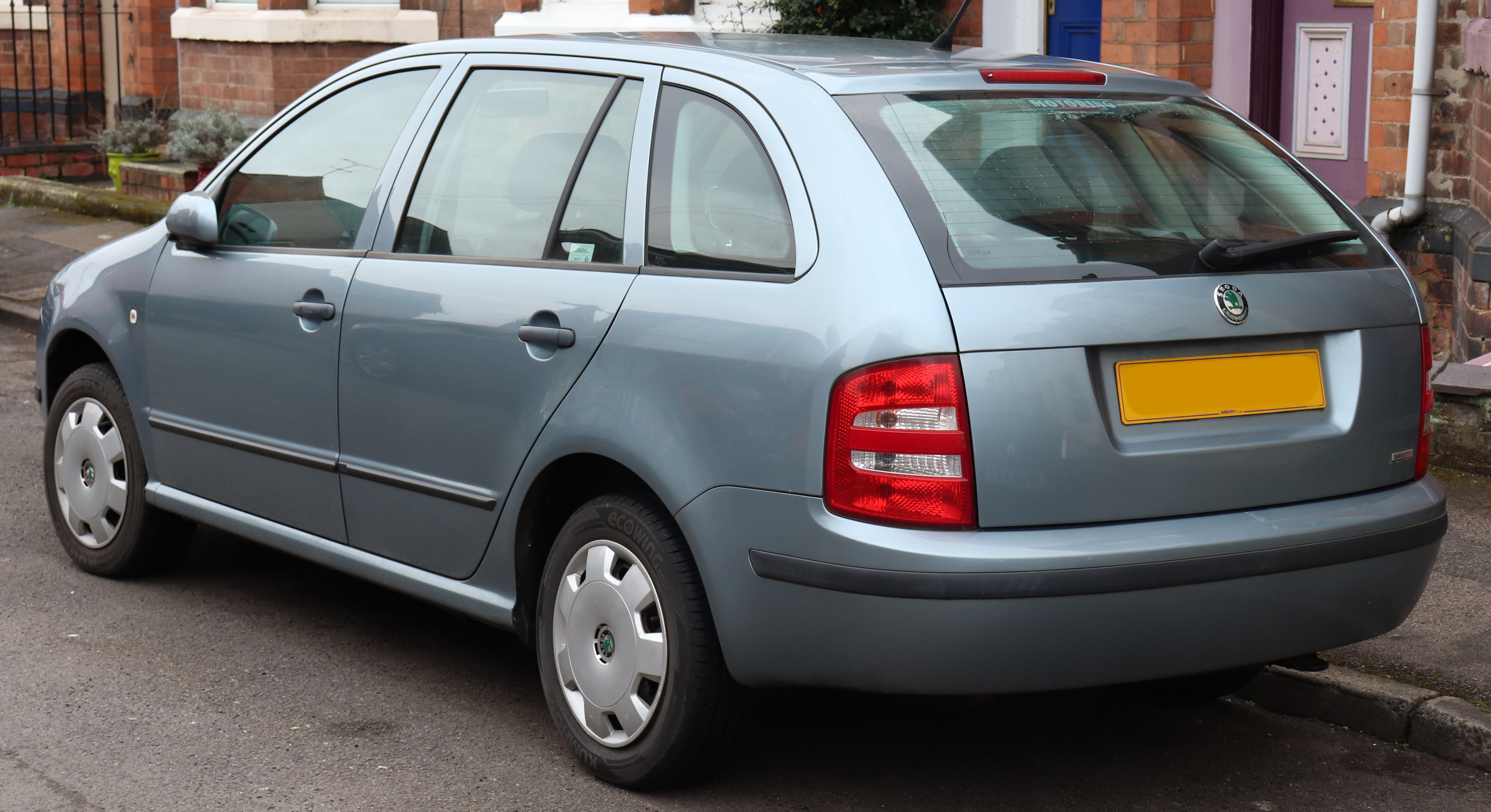 2004 Skoda Fabia Comfort 16V Estate 1.4 Rear Taken in Leamington Spa